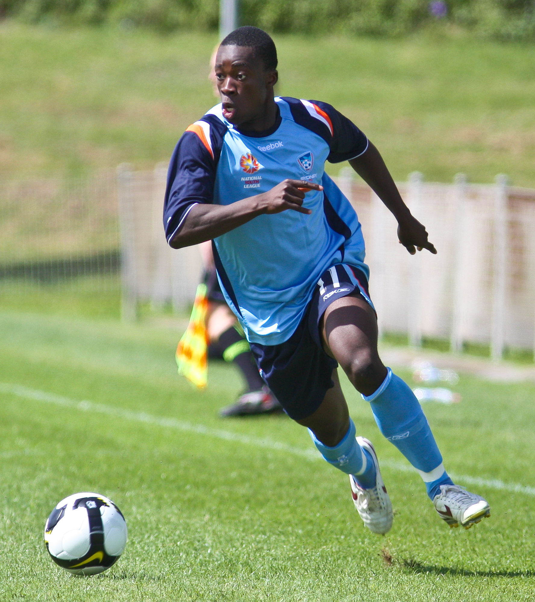 Kofi Danning playing for Sydney FC Youth against Perth Glory youth.